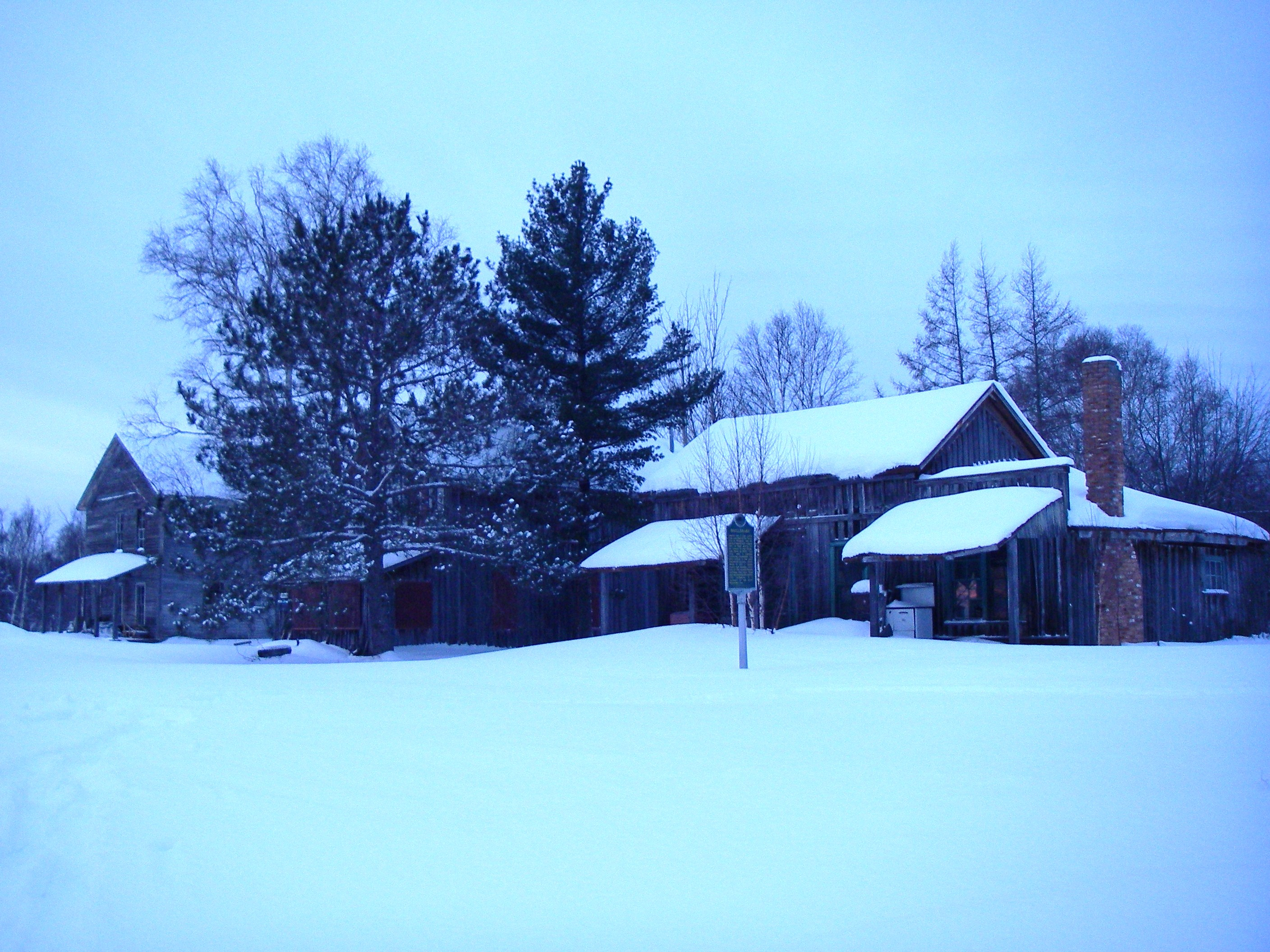 Shelldrake, Michigan state historic marker and remaining buildings.